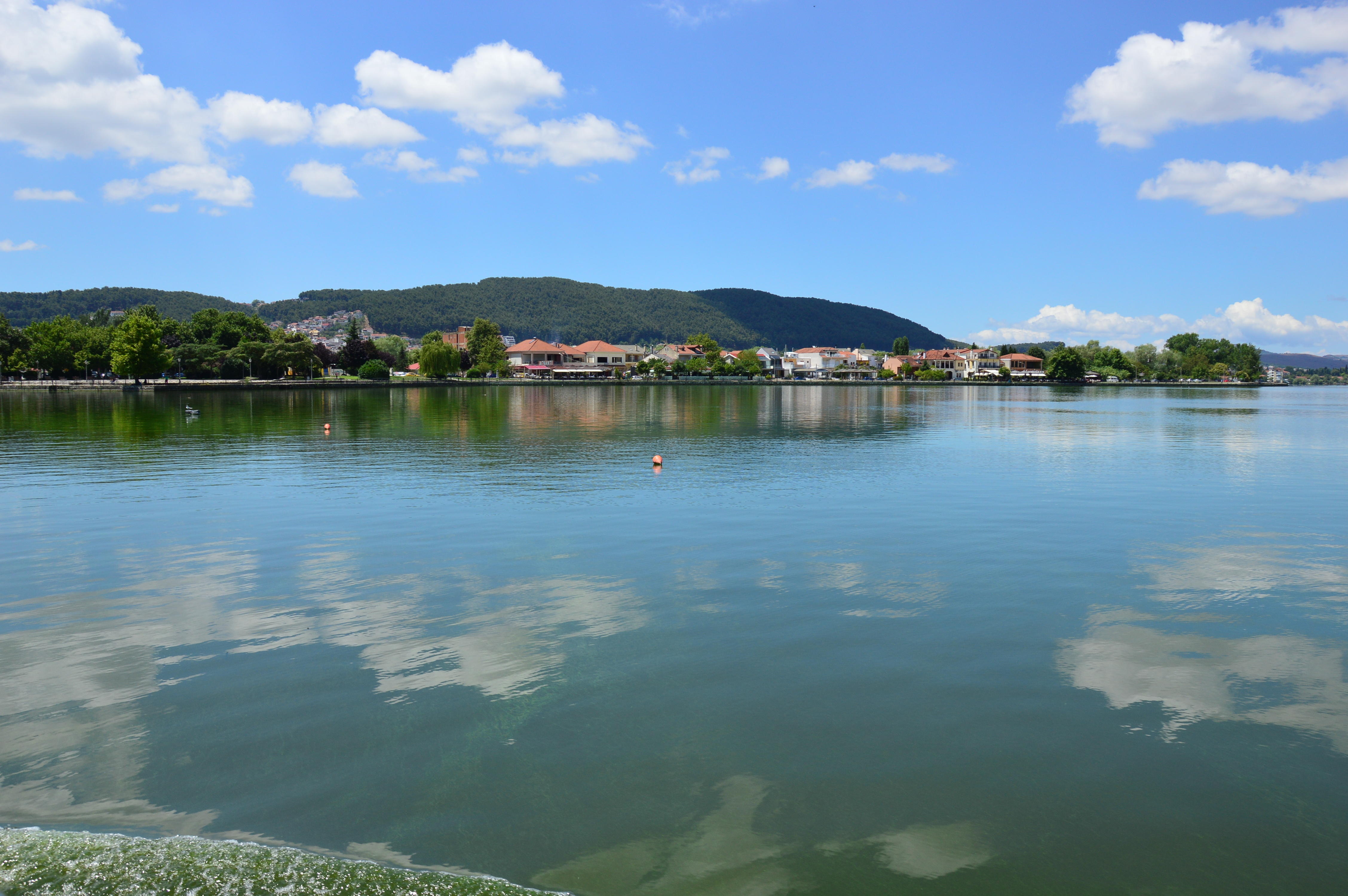 This is a photography of Natura 2000 protected area with ID GR2130005